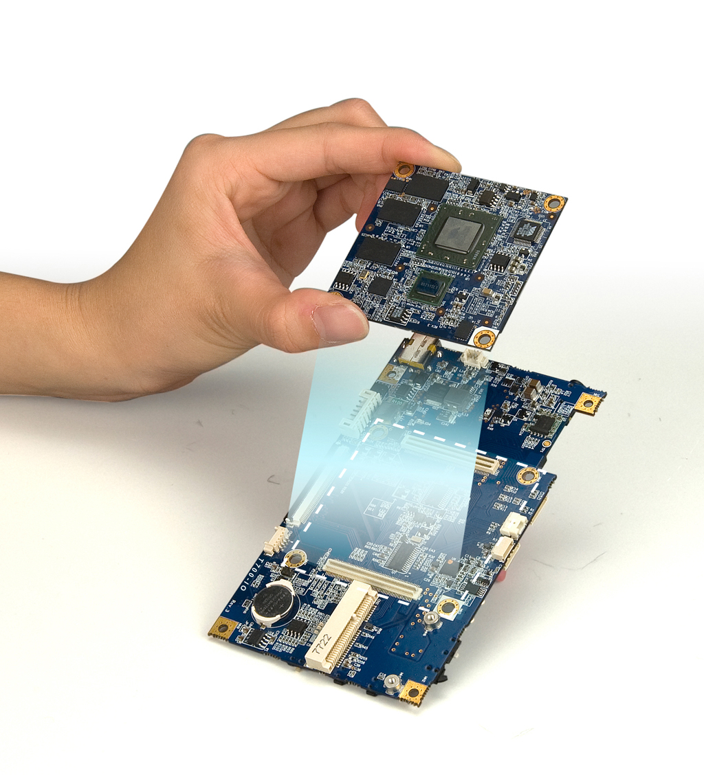 Reference CPU module with IO